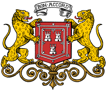 The Coat of Arms of Aberdeen.